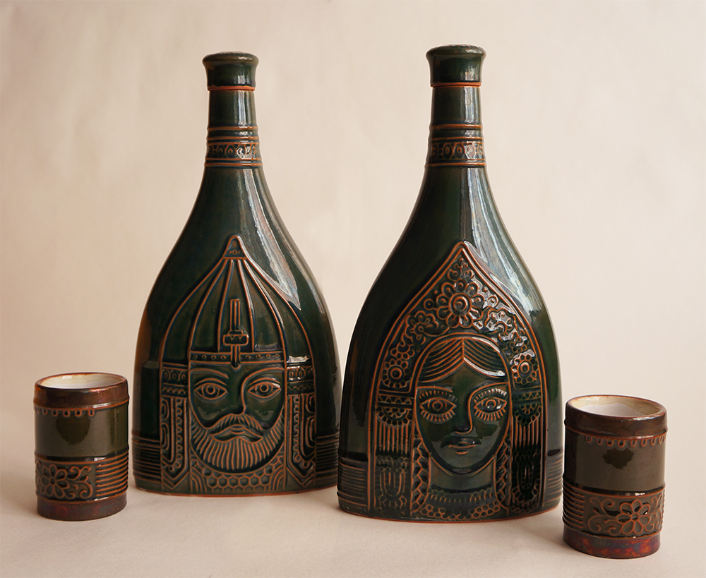 Majolica of the soviet sculptor Bronislav Bystrushkin (1926-1977). Lomonosov's Porcelain Factory, Leningrad, USSR